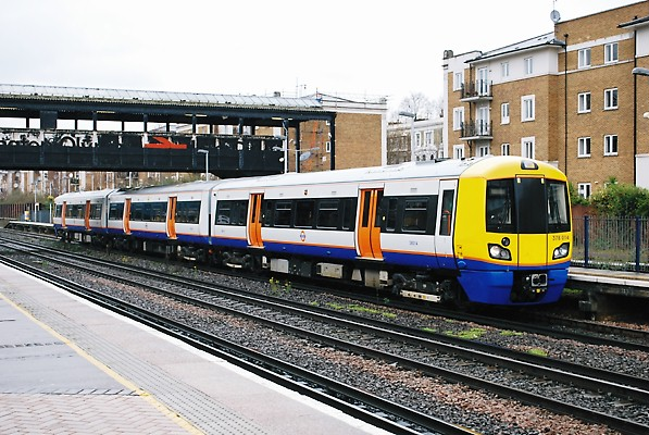 Bombardier (Derby) Class 378/0 (later 378/2) "Capitalstar" 25k v ac overhead/750v dc 3rd rail 3-car emu No.378 0143 (later 378 214) - brand new - of London Overground leaving Kensington Olympia on a Willesden Jct. - Clapham Jct. service, 03/10.